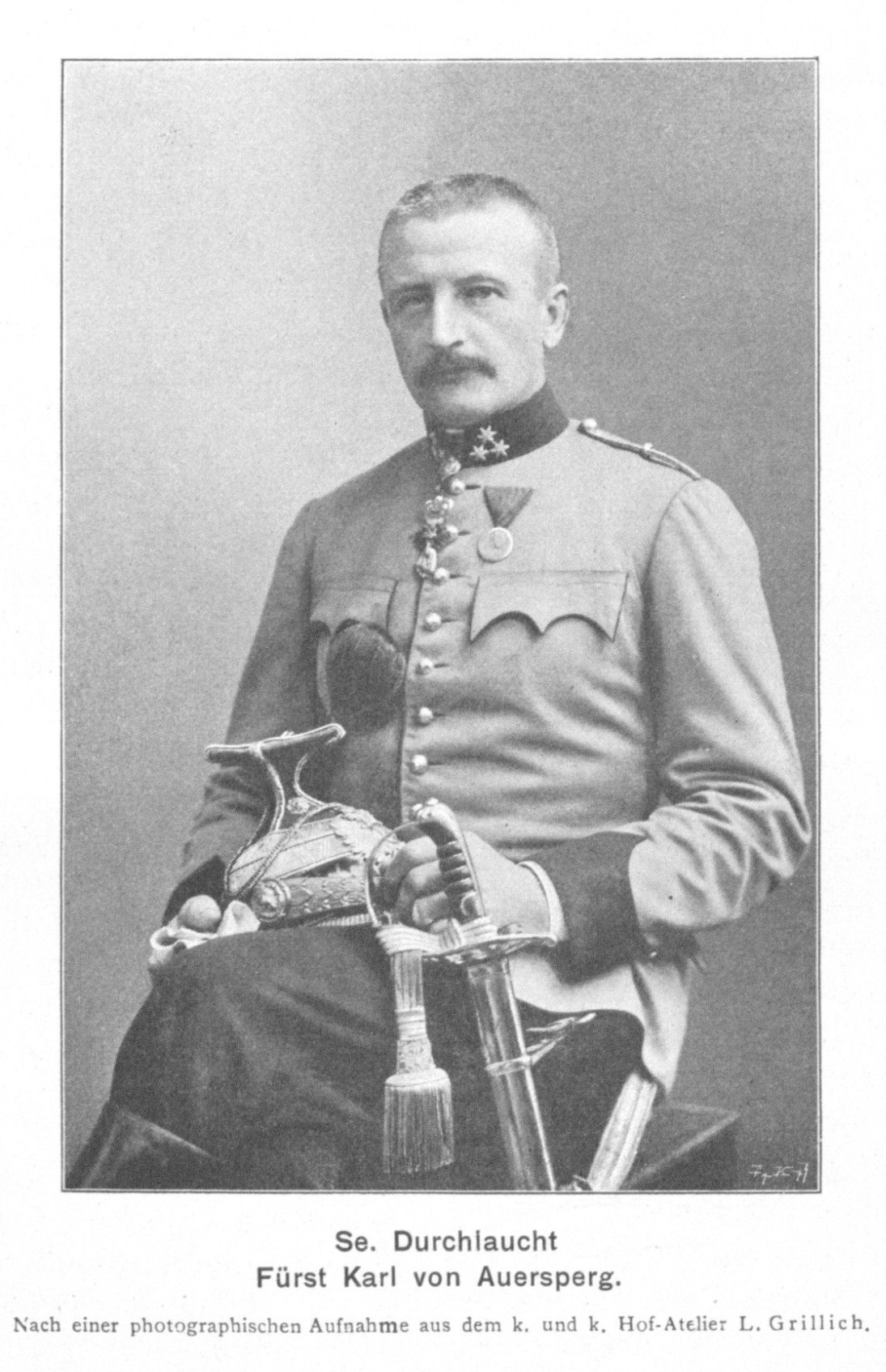 Portrait of Karl Maria Alexander von Auersperg (1859-1927), Austrian military officer and politician.